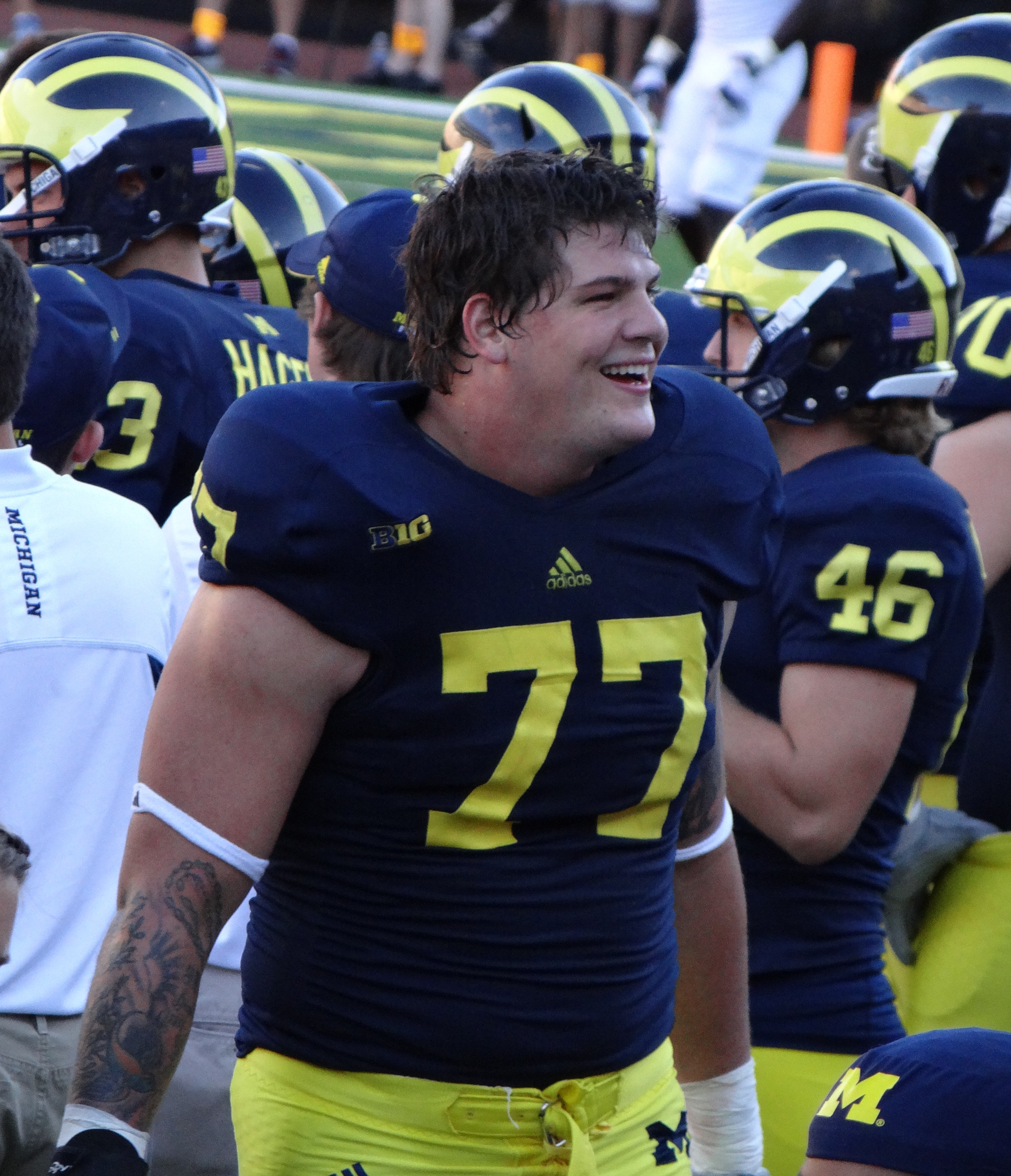 Taylor Leway on sidelines against UMass